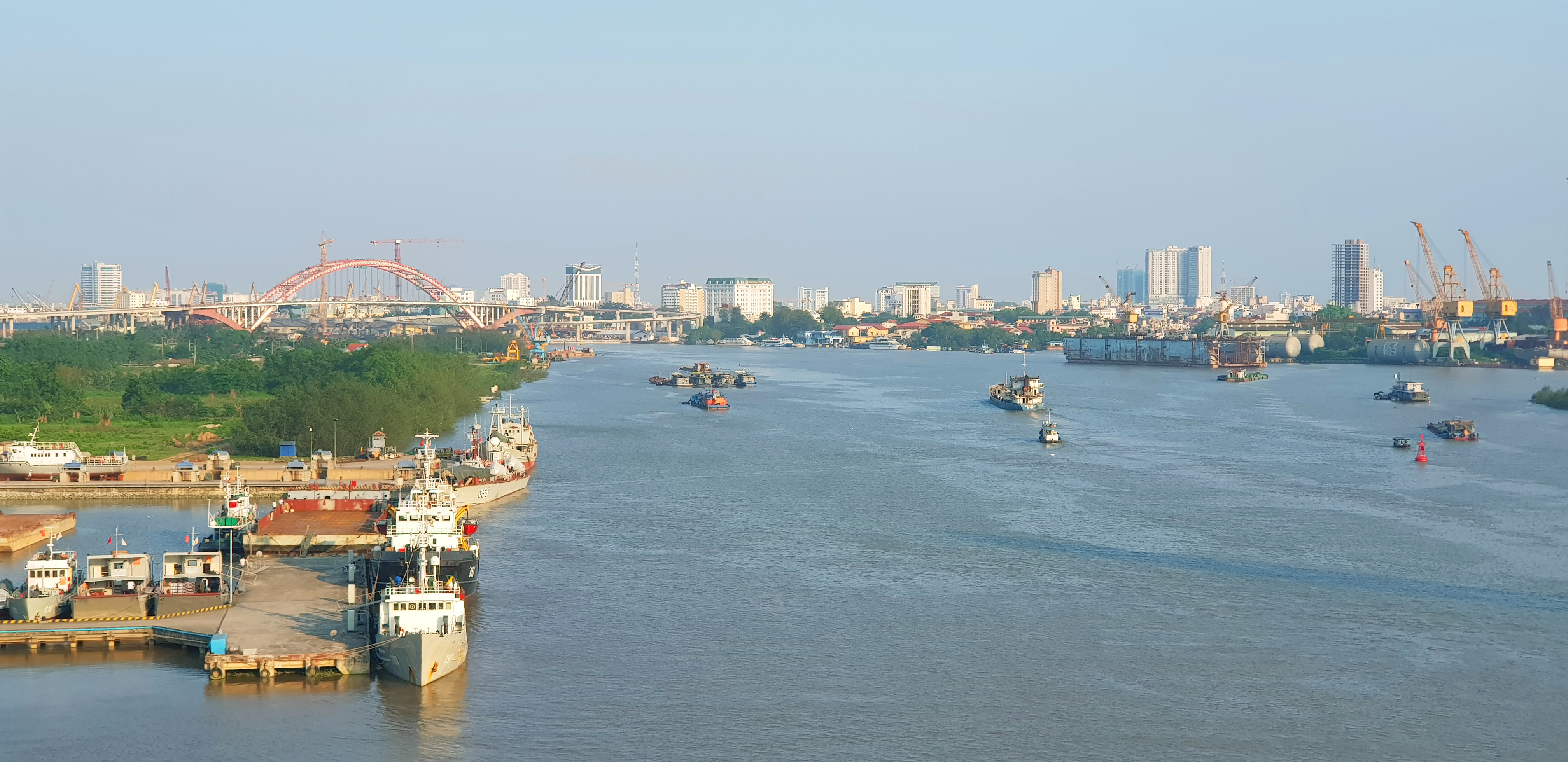 Hai Phong city 2019